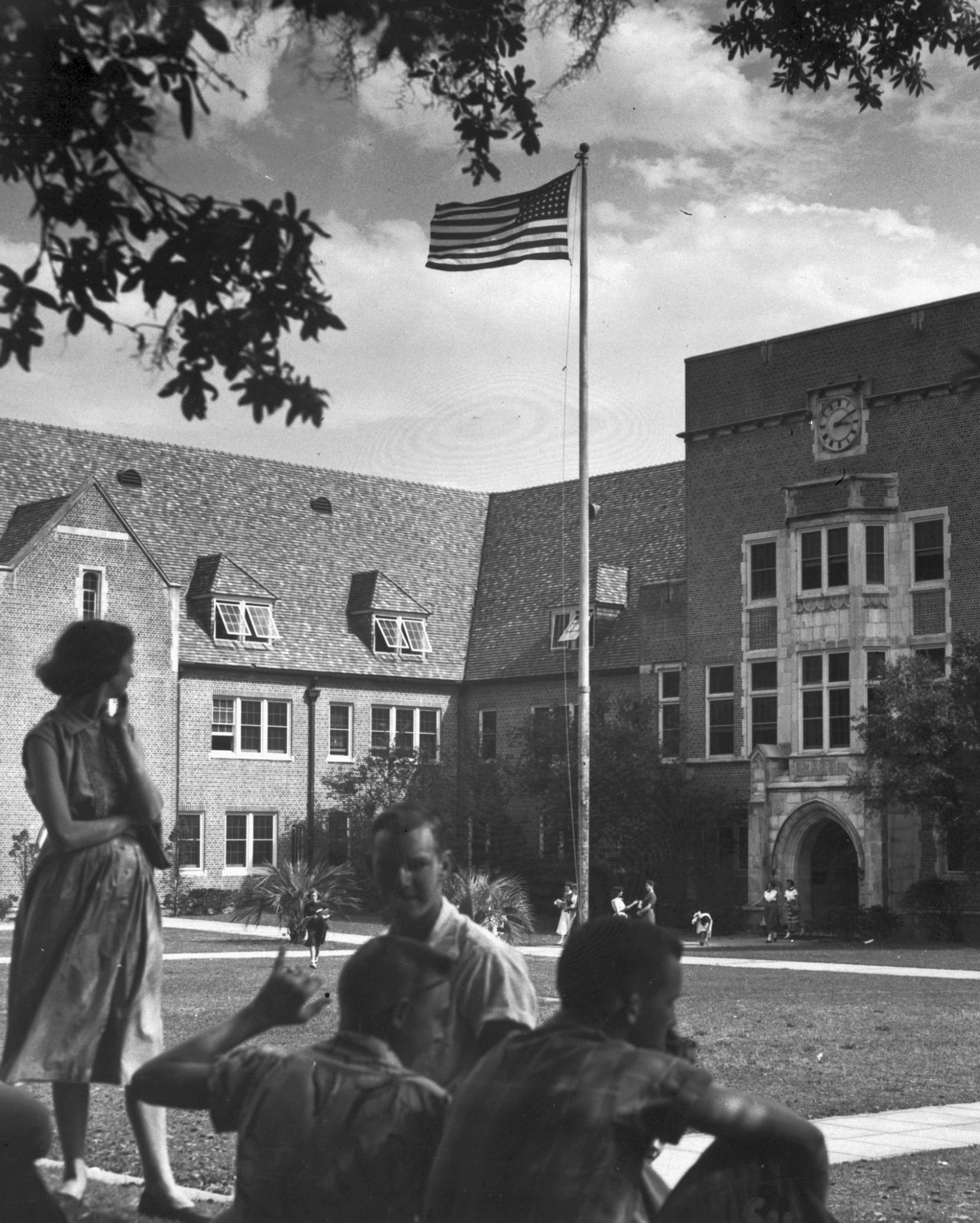 A historic photo of the Norman Hall Courtyard